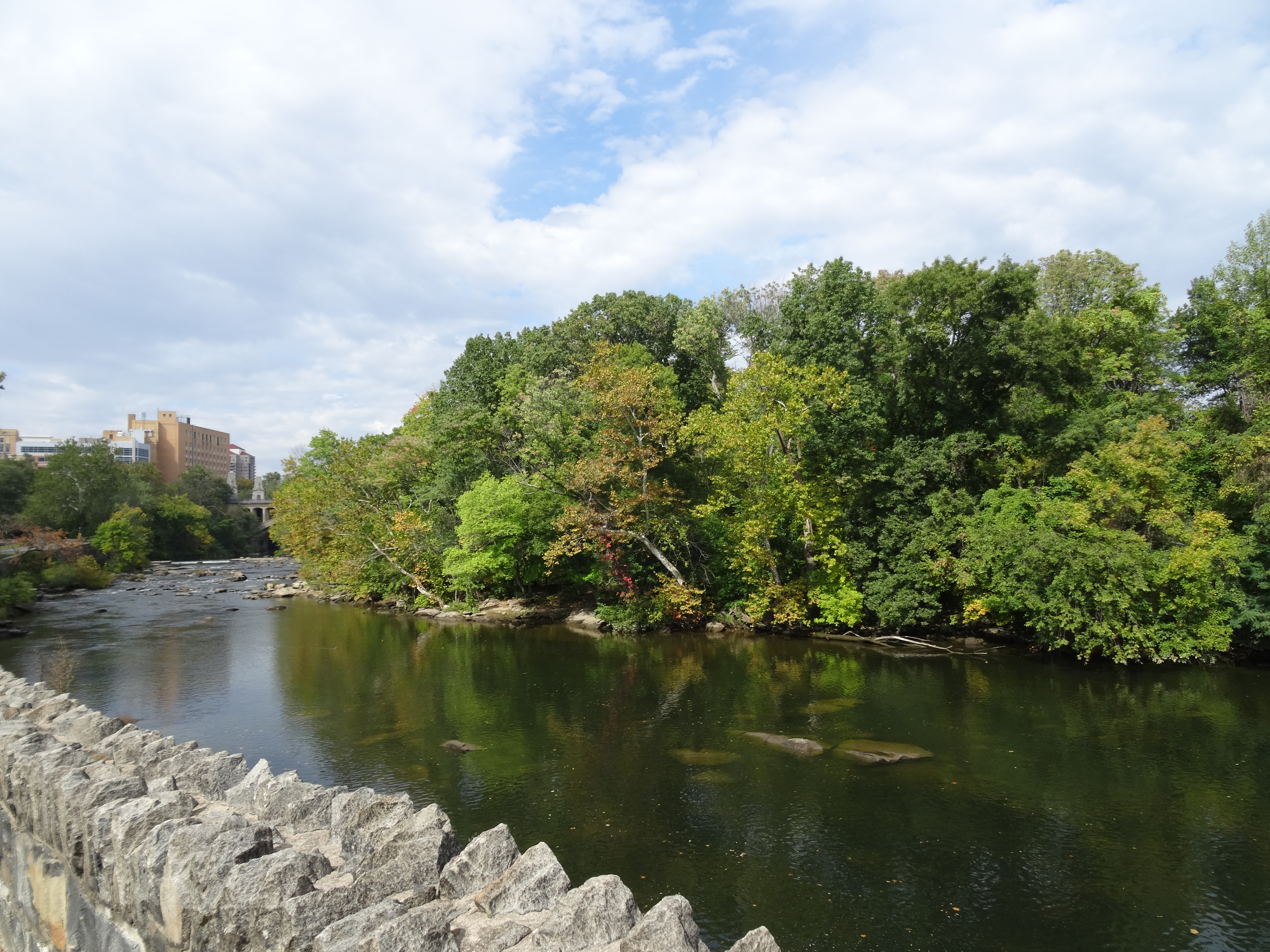 View of the Brandywine at Brandywine Park.